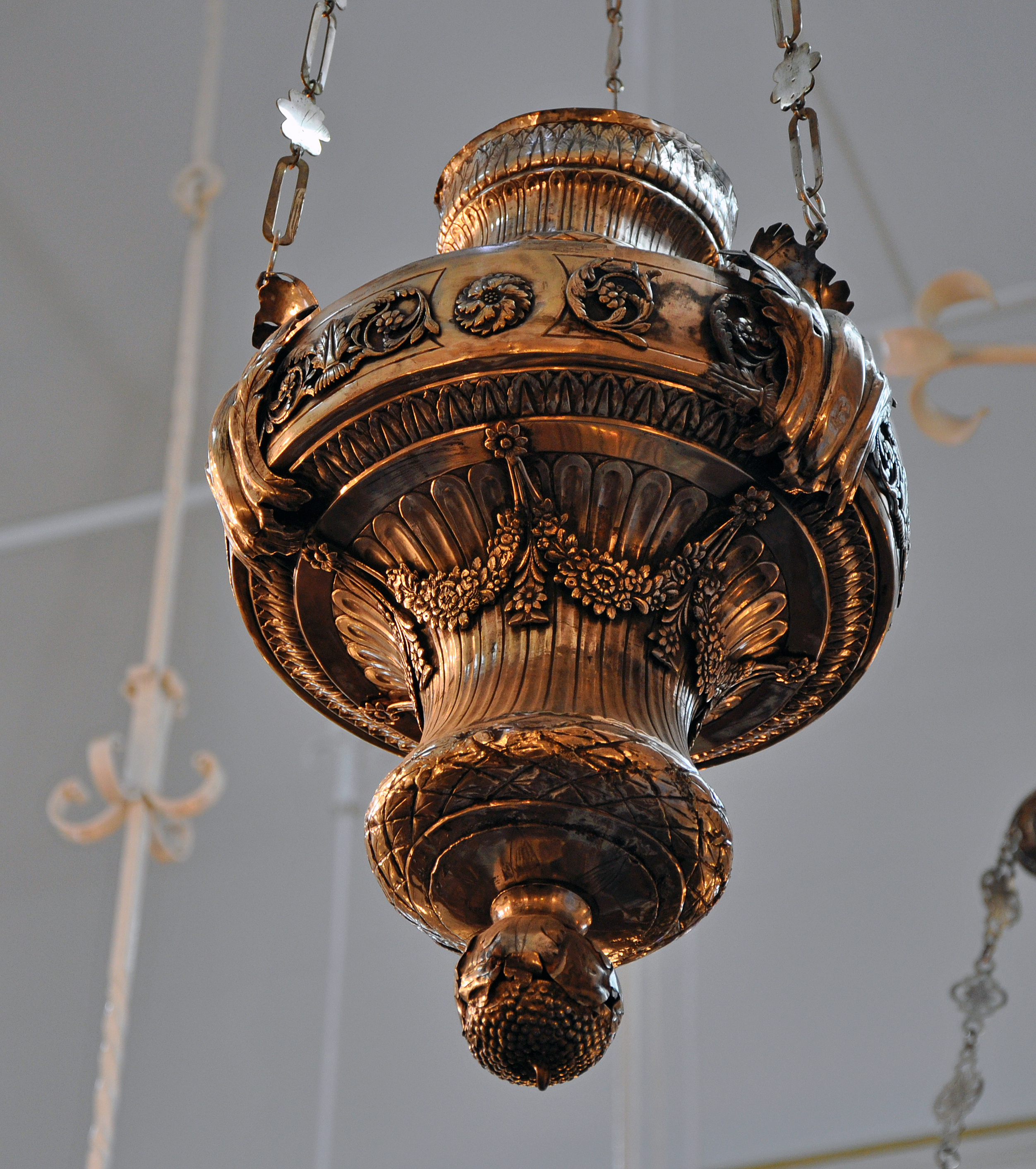 Abudarham Synagogue, Parliament Lane, Gibraltar